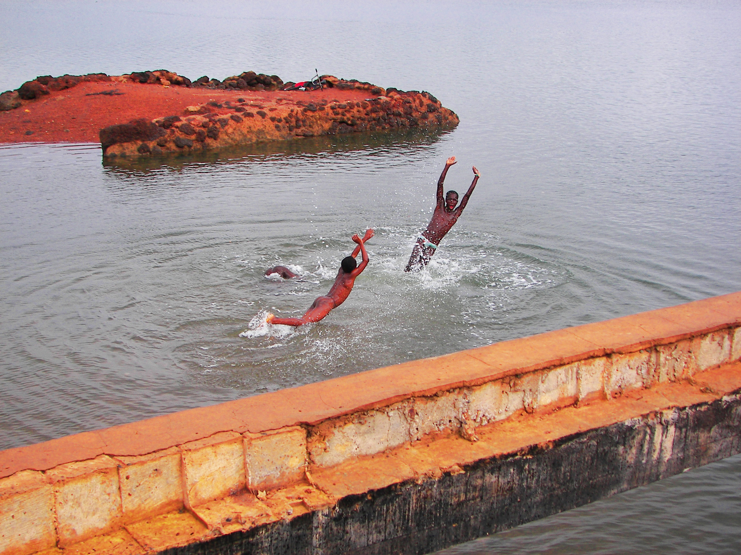 boys from Buba